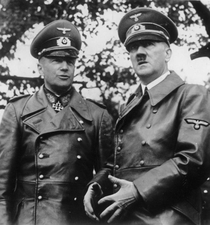 Warsaw during World War II